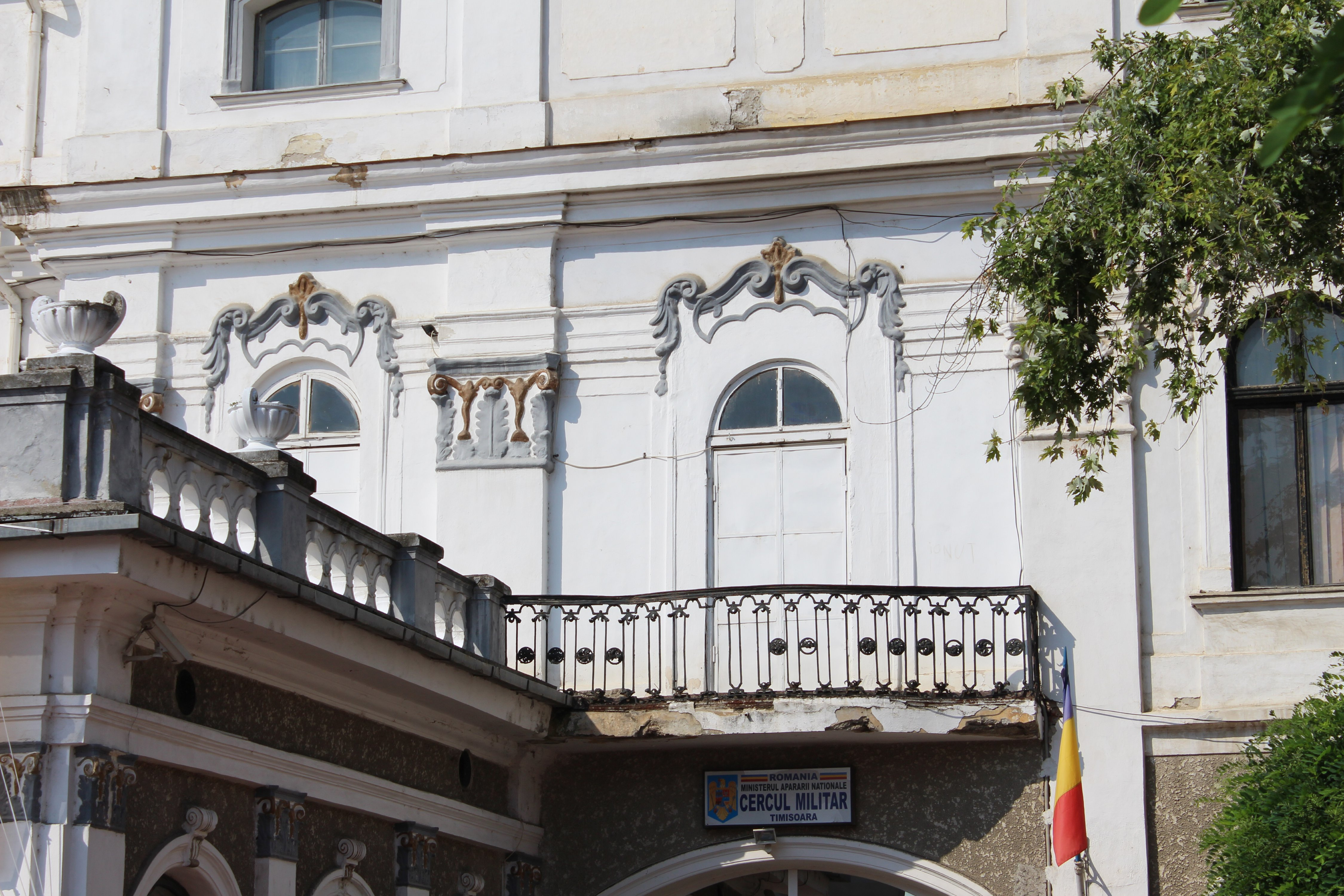 Military Casino of Timisoara, architectural details